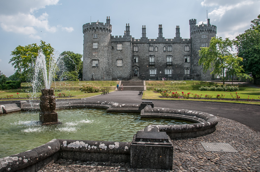 Kilkenny Castle, gardens with fountain, in Ireland.